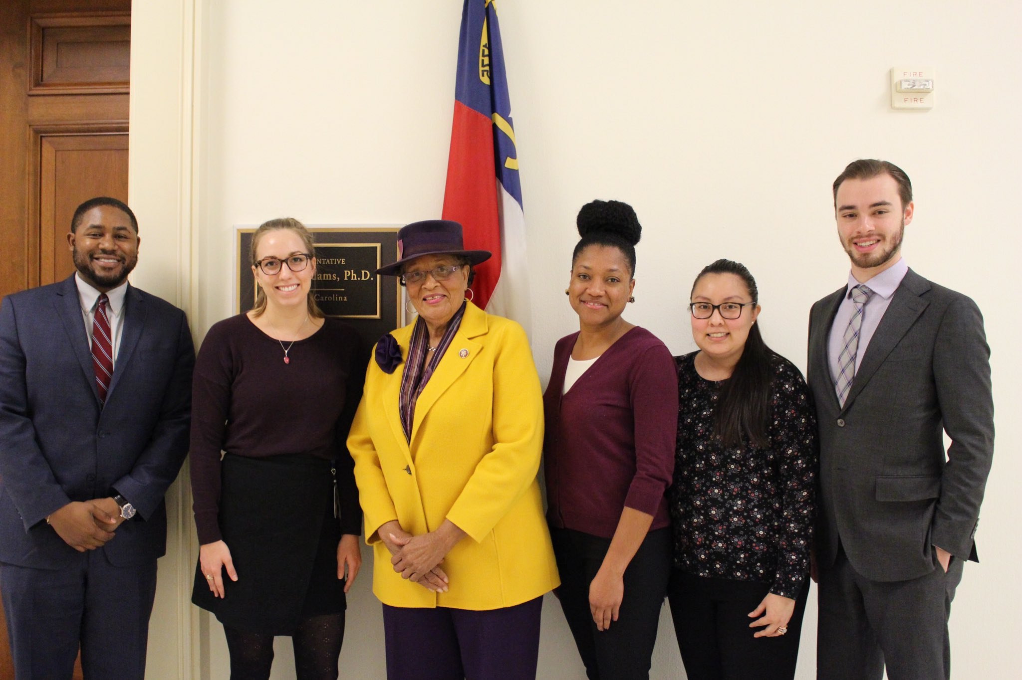 Pancreaticcancer is the third leading cause of cancer-related deaths in the United States. Today, my staff and I wore shades of purple to raise awareness. I encourage you to visit to learn more & join me in the fight against pancreatic cancer. #PANCaware